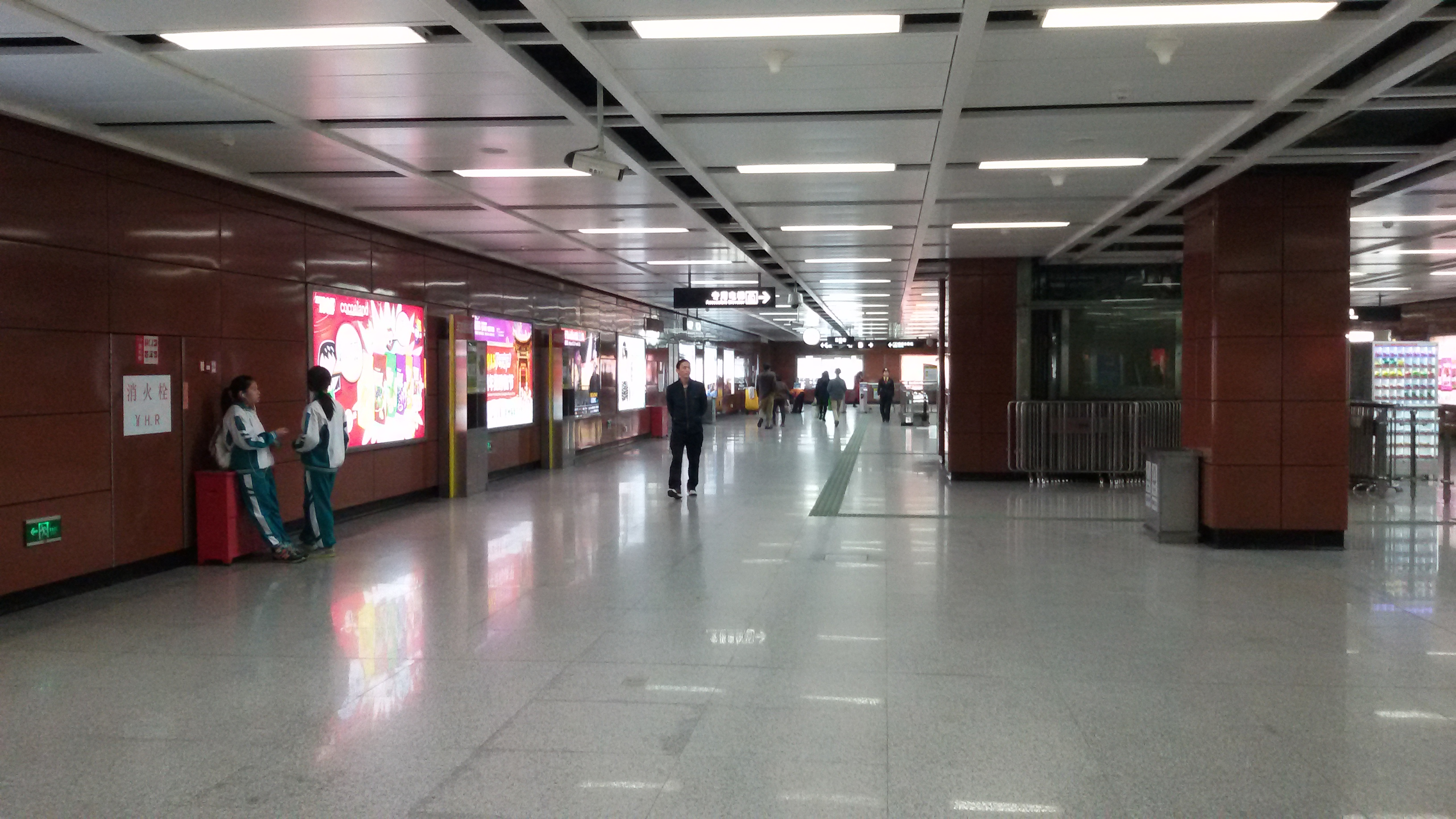 Station Concourse for Jiangtai Lu Station in Guangzhou Metro.